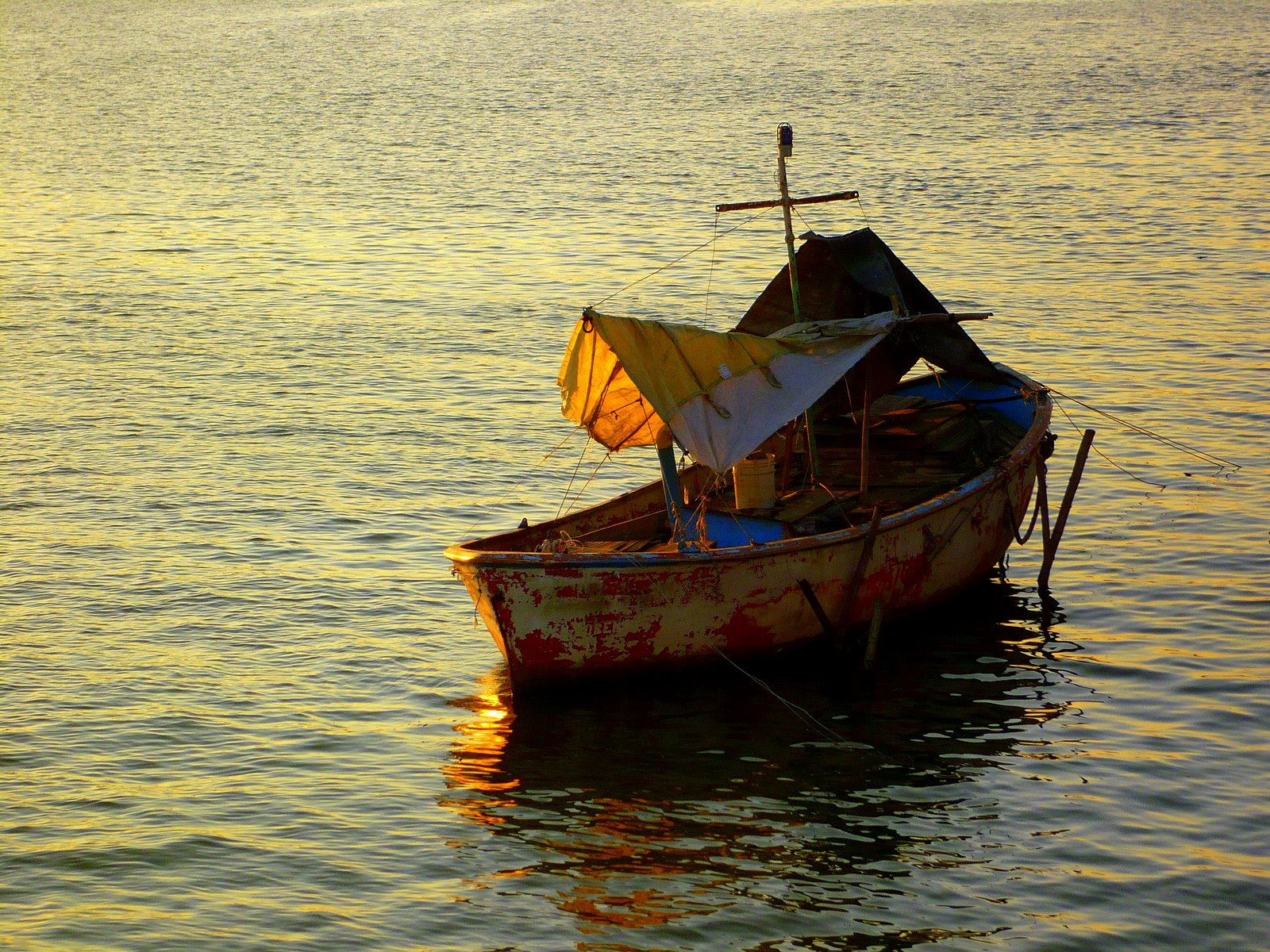 Barquito en el río Tuxpan.